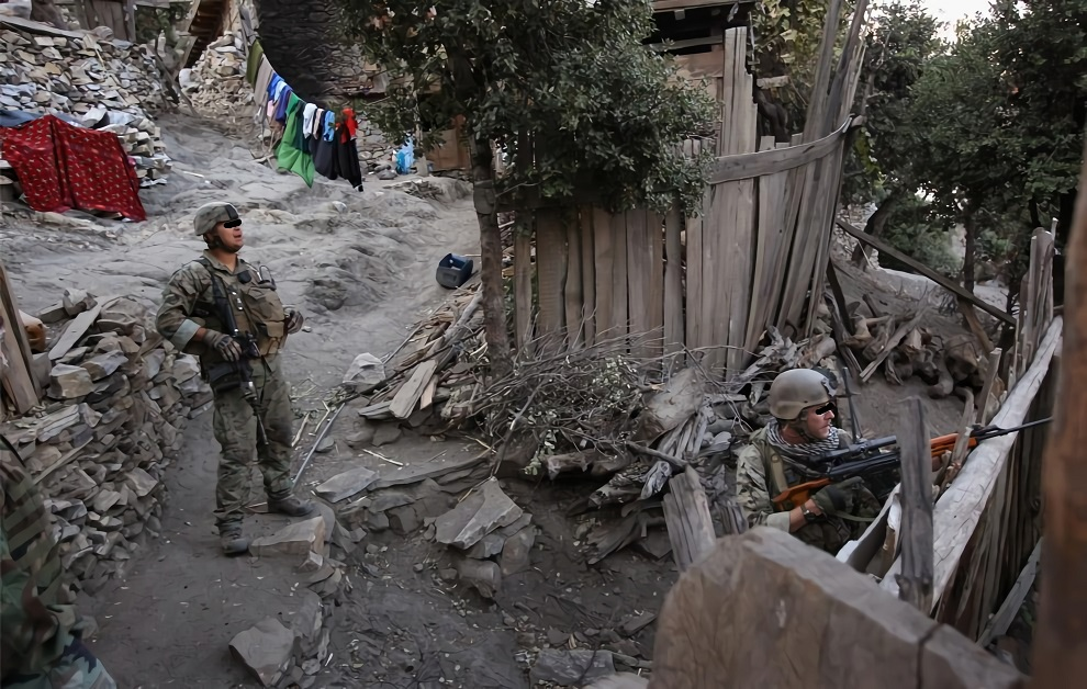 Direct Action and Surveillance and Reconnaissance (DASR) operators conducting combat operations in eastern Afghanistan.